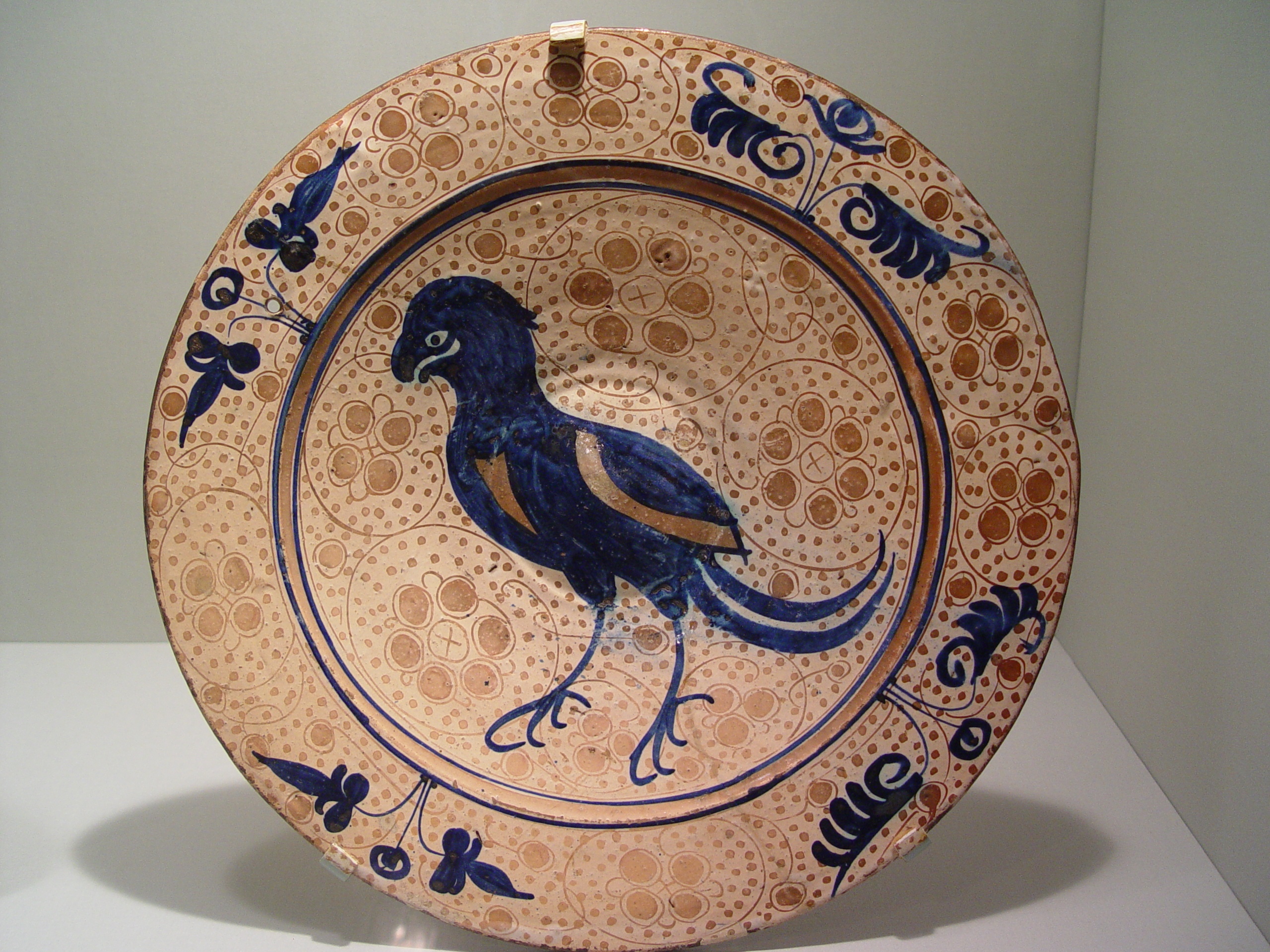 Spain, Manises Dish with a Bird, 1430-1450 Ceramic, Tin-glazed earthenware (maiolica), Diameter: 14 in. (35.56 cm) William Randolph Hearst Collection (50.7.2) Wikipedia Loves Art at the Los Angeles County Museum of Art This photo of item # 50.7.2 at the Los Angeles County Museum of Art was contributed under the team name "team_a" as part of the Wikipedia Loves Art project in February 2009. Los Angeles County Museum of Art The original photograph on Flickr was taken by howcheng—please add a comment to the original Flickr page whenever a use has been made on Wikipedia or another project. Project galleries on Flickr: this institution, this team